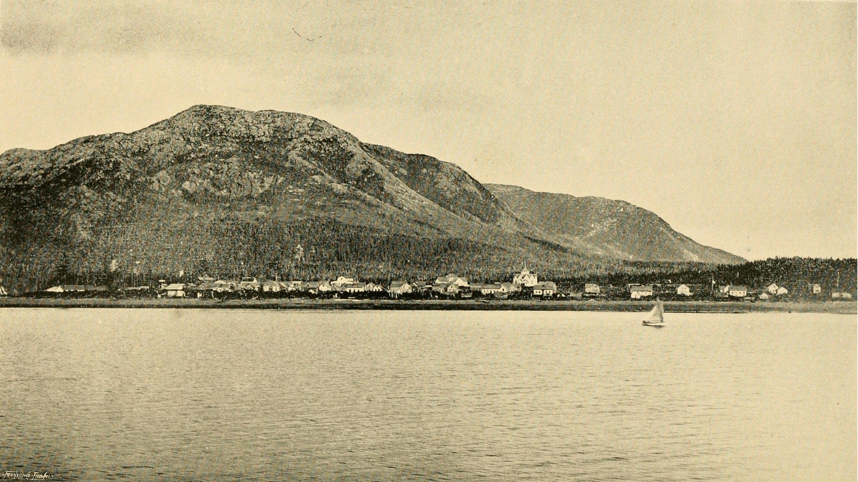 Metlakatla, Alaska (Captioned "New Metlakahtla"), 1890s